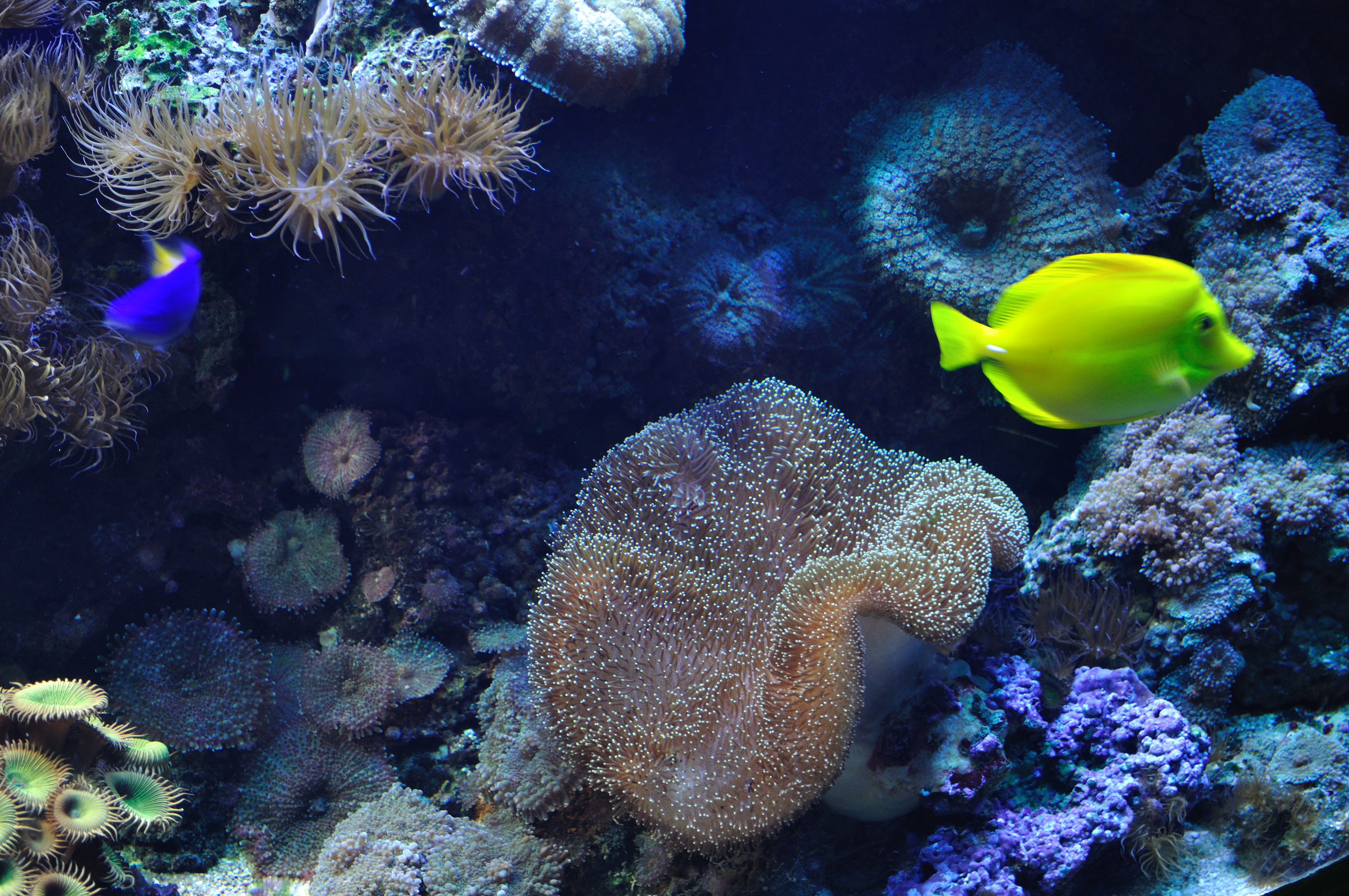 Marine fish